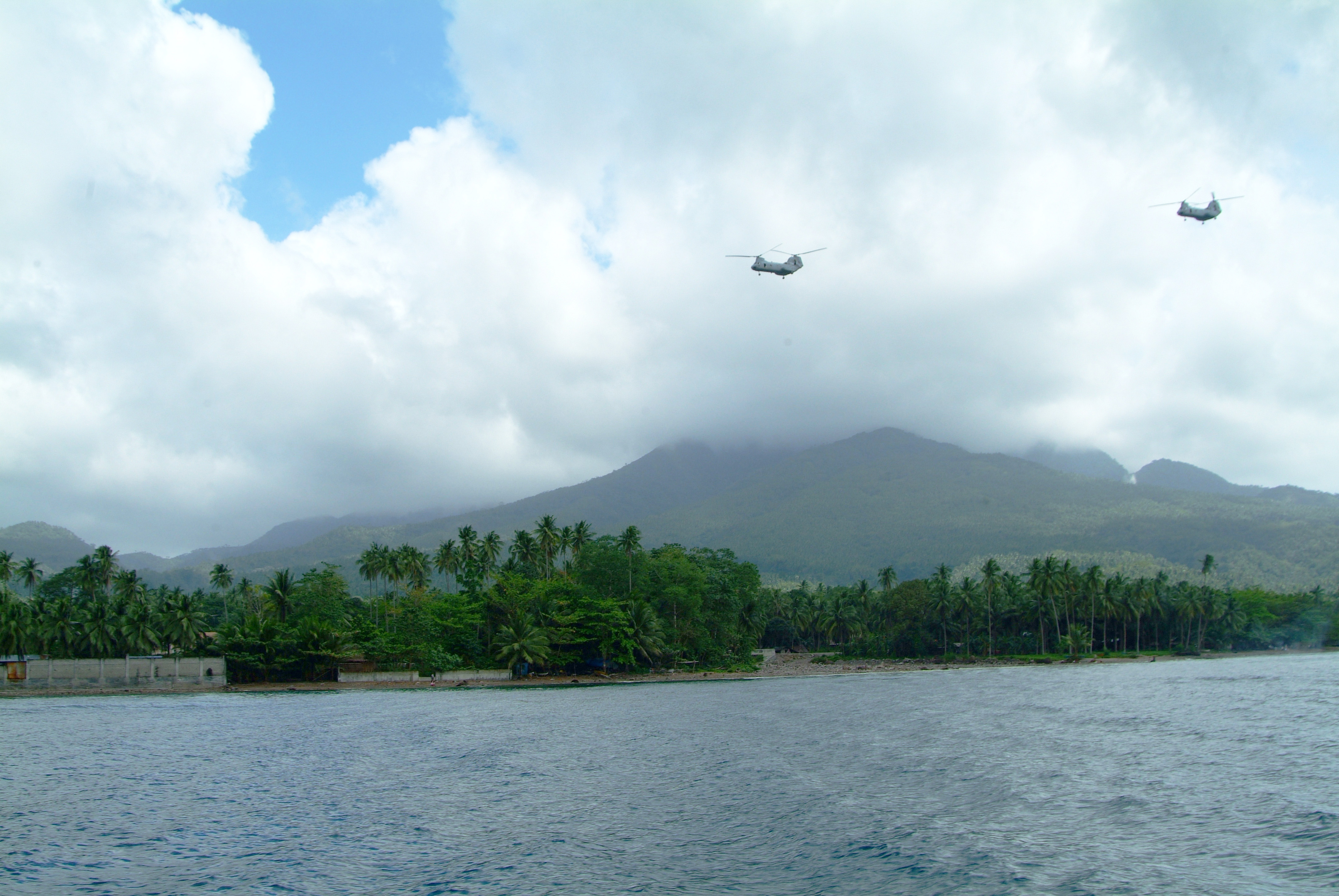 Cabalian Bay, Republic of the Philippines (Feb. 20, 2006) - A pair of U.S. Marine Corps CH-46E Sea Knight helicopters from combat air elements of the 31st Marine Expeditionary Unit (MEU) provide equipment and personnel to aid in local relief efforts for victims of Feb. 17 landslide on the Island of Leyte. Harpers Ferry, the amphibious assault ship USS Essex (LHD 2), and elements of the 3rd Marine Expeditionary Brigade (3D MEB) are providing humanitarian assistance to victims in the Saint Bernard Municipality, where the town of Guinsahugon located in the southern part of the island was completely devastated. U.S. Navy photo by Journalist 2nd Class Brian P. Biller (RELEASED)